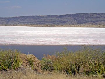 Lake Madagi, Kenya, R. Renaut: original photograph